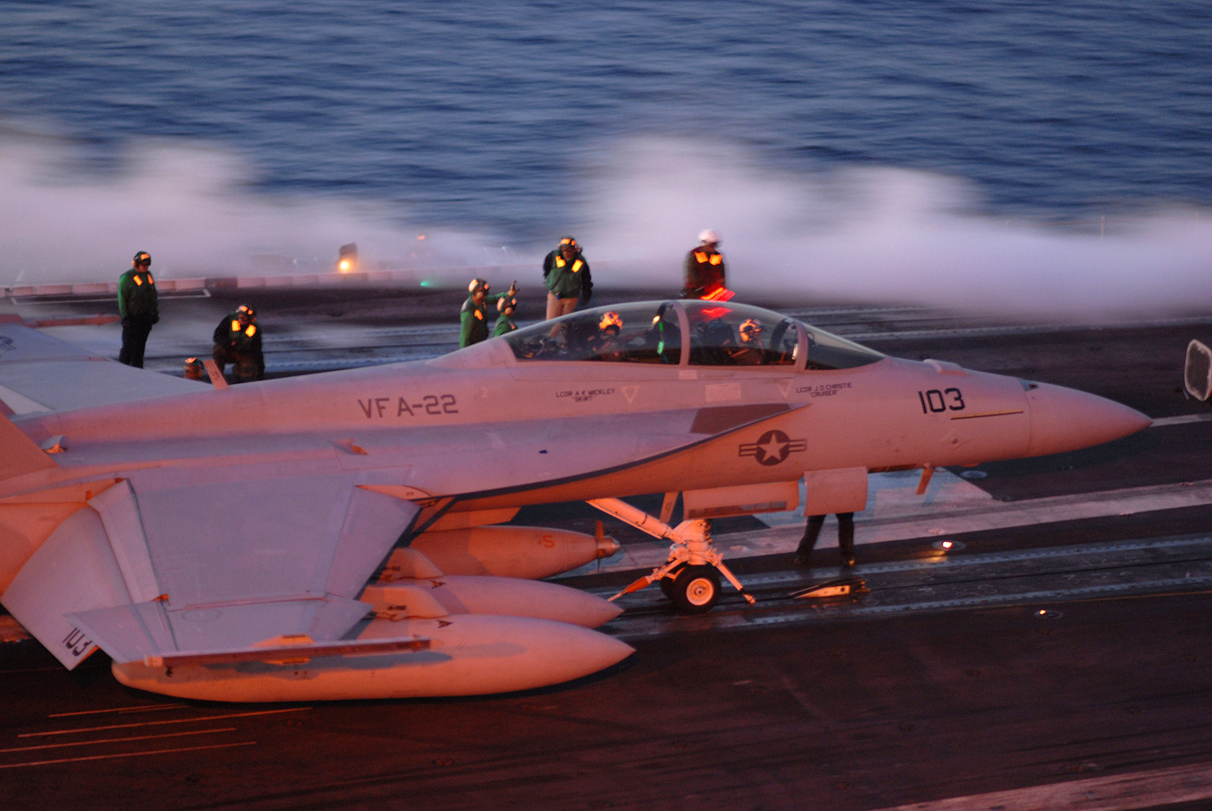 PACIFIC OCEAN (Dec. 2, 2007) The aircrew of an F/A-18F Super Hornet, assigned to the "Fighting Redcocks" of Strike Fighter Squadron (VFA) 22, wait to launch from Catapult 3 during night flight operations on the flight deck of the Nimitz-class nuclear-powered aircraft carrier USS Ronald Reagan (CVN 76). Ronald Reagan is currently underway conducting a tailored ship's training assessment. U.S. Navy photo by Mass Communication Specialist 2nd Class Joseph M. Buliavac (Released)